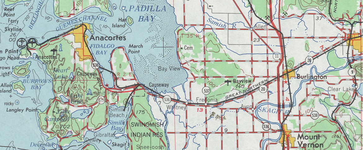 A map showing the original route of Washington State Route 536 in 1966.